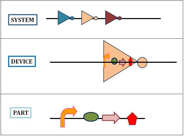 BioBrick-delar, enheter och system